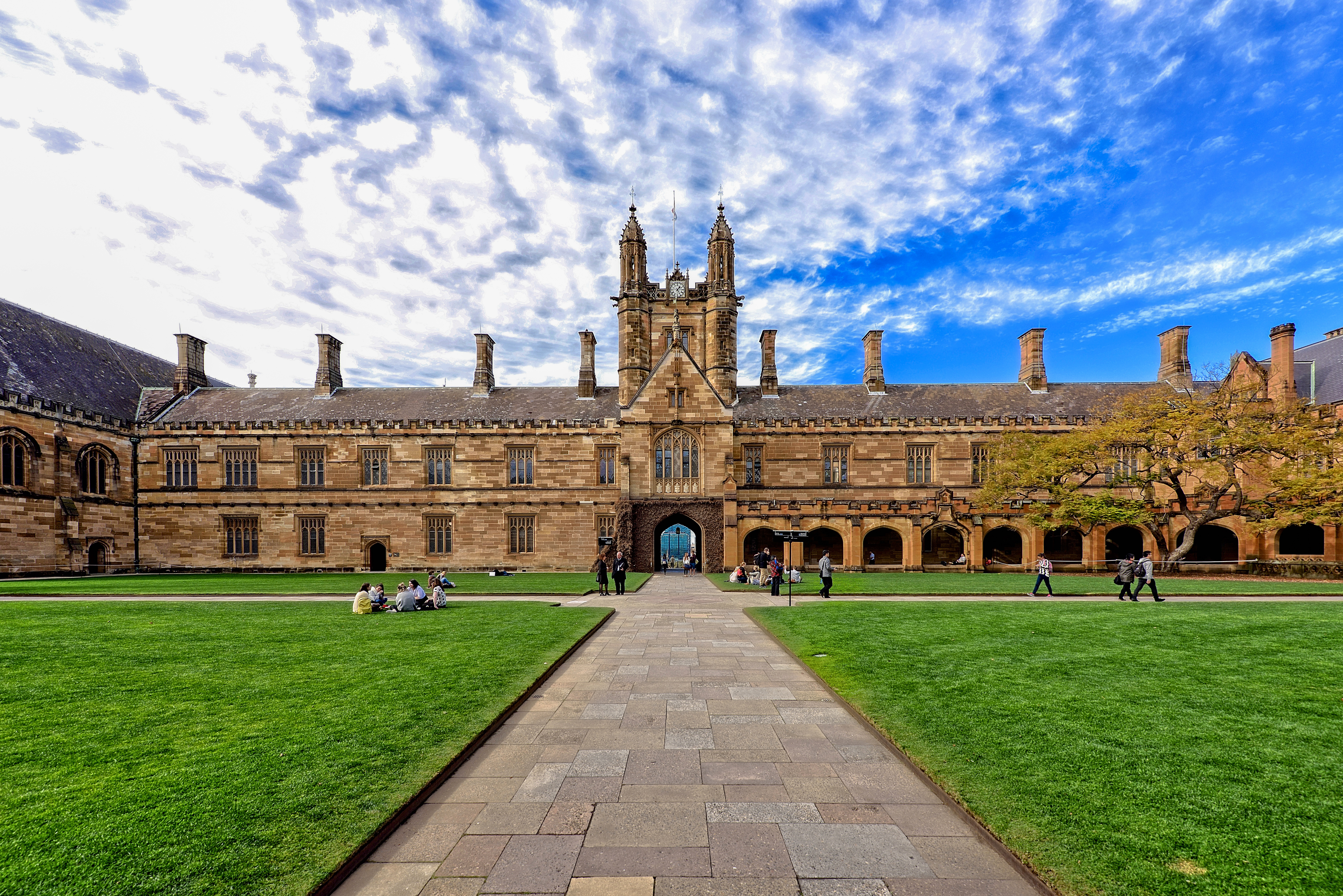 Main Quadrangle, University of Sydney